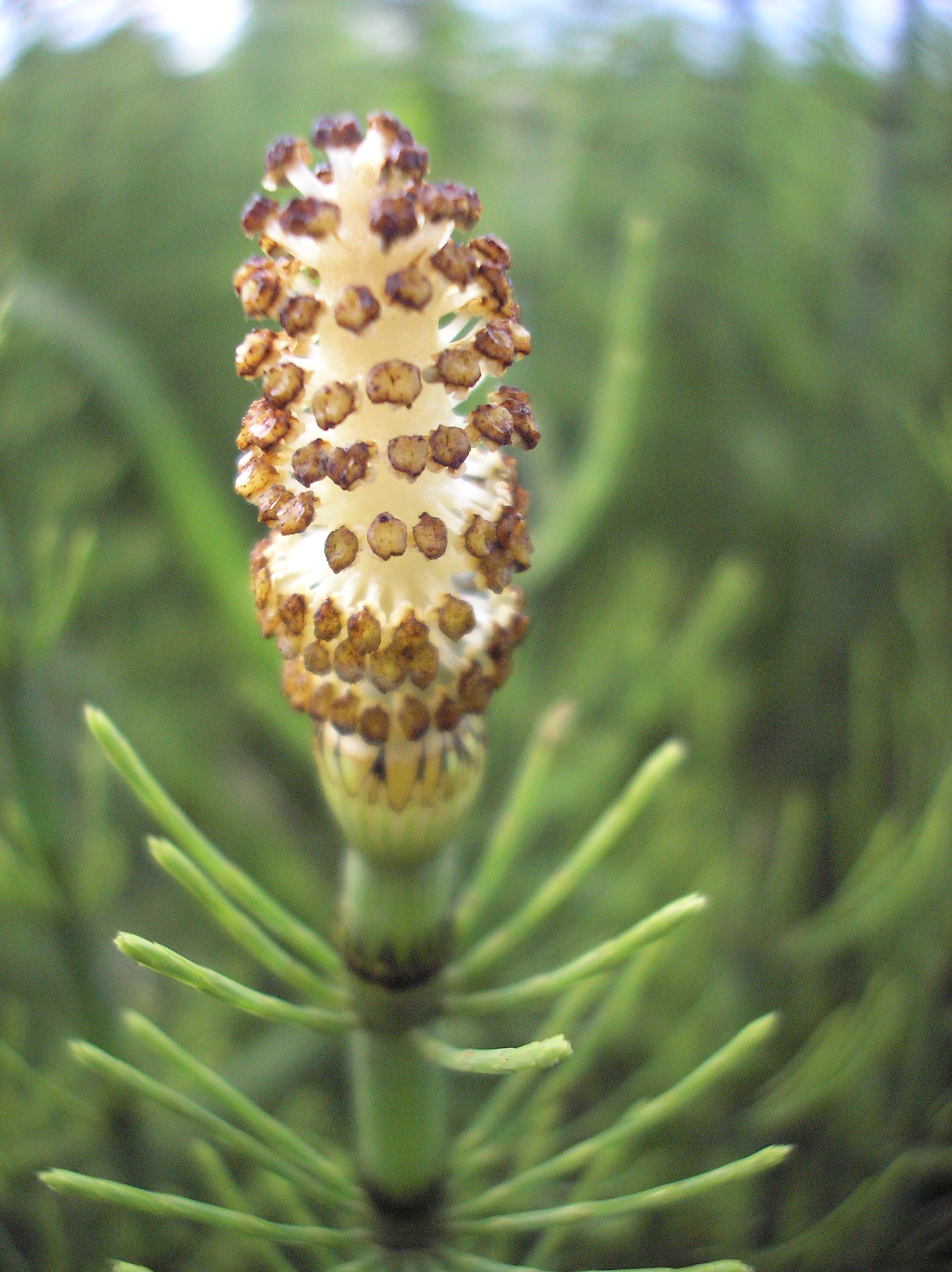 Spore-forming cone (Strobilus) with sporophylls of a horsetail Equisetum sp.